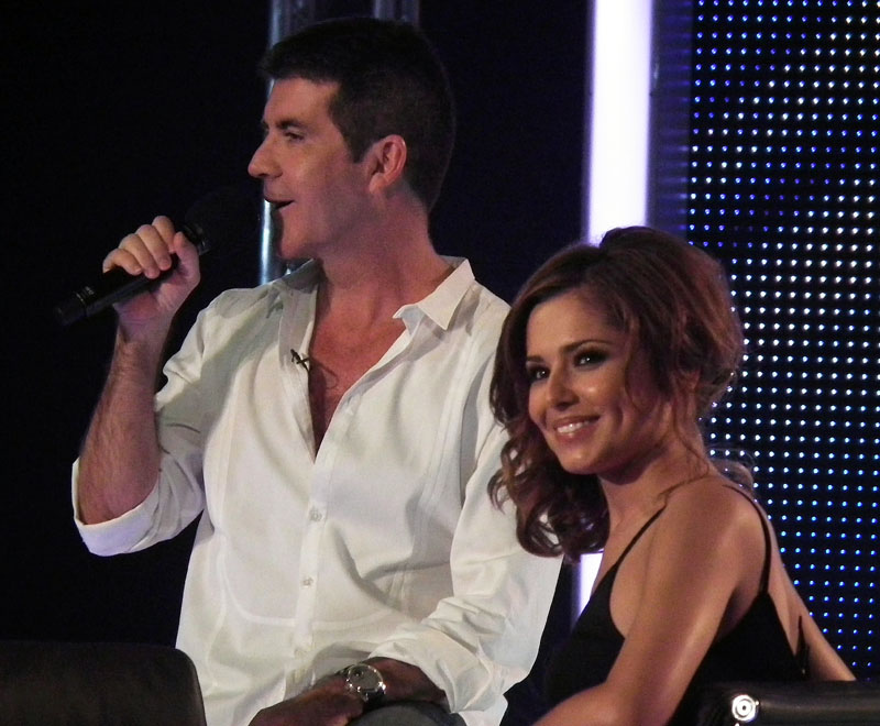 Simon Cowell and Cheryl Cole during filming of the London auditions for the seventh series of The X Factor, photo courtesy Alison Martin of .